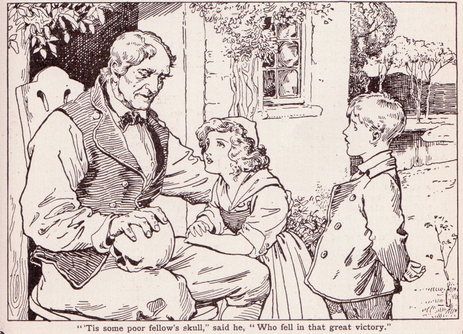 This illustration is from the public domain book, The Book of Knowledge, The Children’s Encyclopedia, Edited by Arthur Mee and Holland Thompson, Ph. D., Vol II, Copyright 1912, The Grolier Society of New York. The original copyright for these books was 1899. This illustration of a man with two children is from the poem, "The Battle of Blenheim". The man, possibly Grandpa, is telling the story with a skull sitting on his lap. Flickr data on 2011-08-18: Tags: 1912, book, Book of Knowledge, copyright free, creative commons, dance, flickr, free License: CC BY 2.0 User: perpetualplum Sue Clark